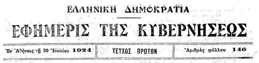 ΦΕΚ A 146/1924, Header from Efimerida tis Kyverniseos, Official Greek State Journal, entitled: Elliniki Dimokratis, Efimeris tis Kyverniseos